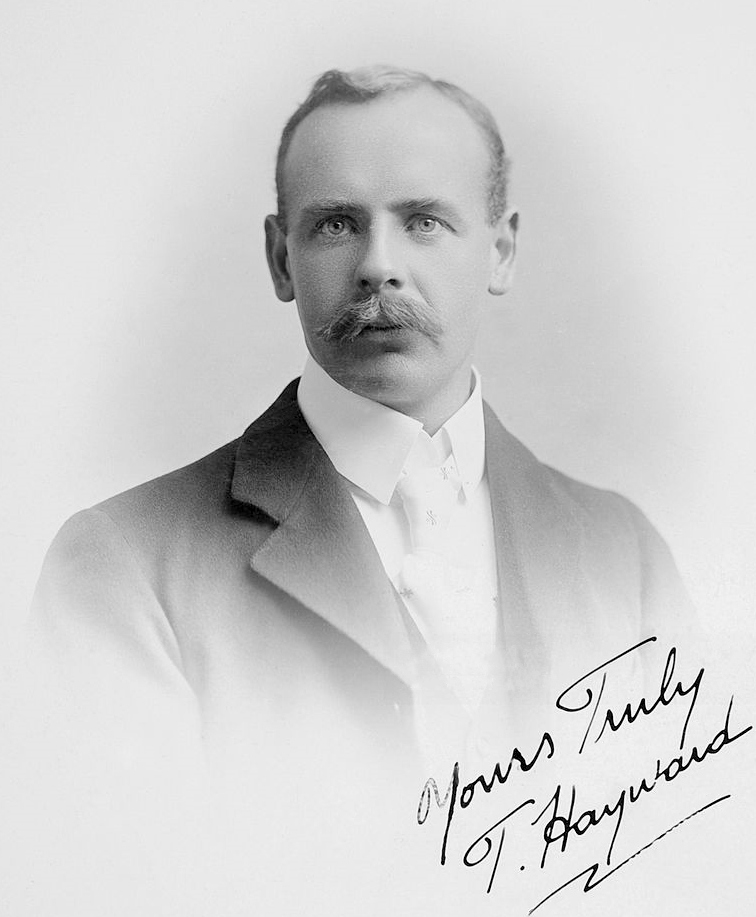 Surrey and England batsman Tom Hayward, circa 1899.